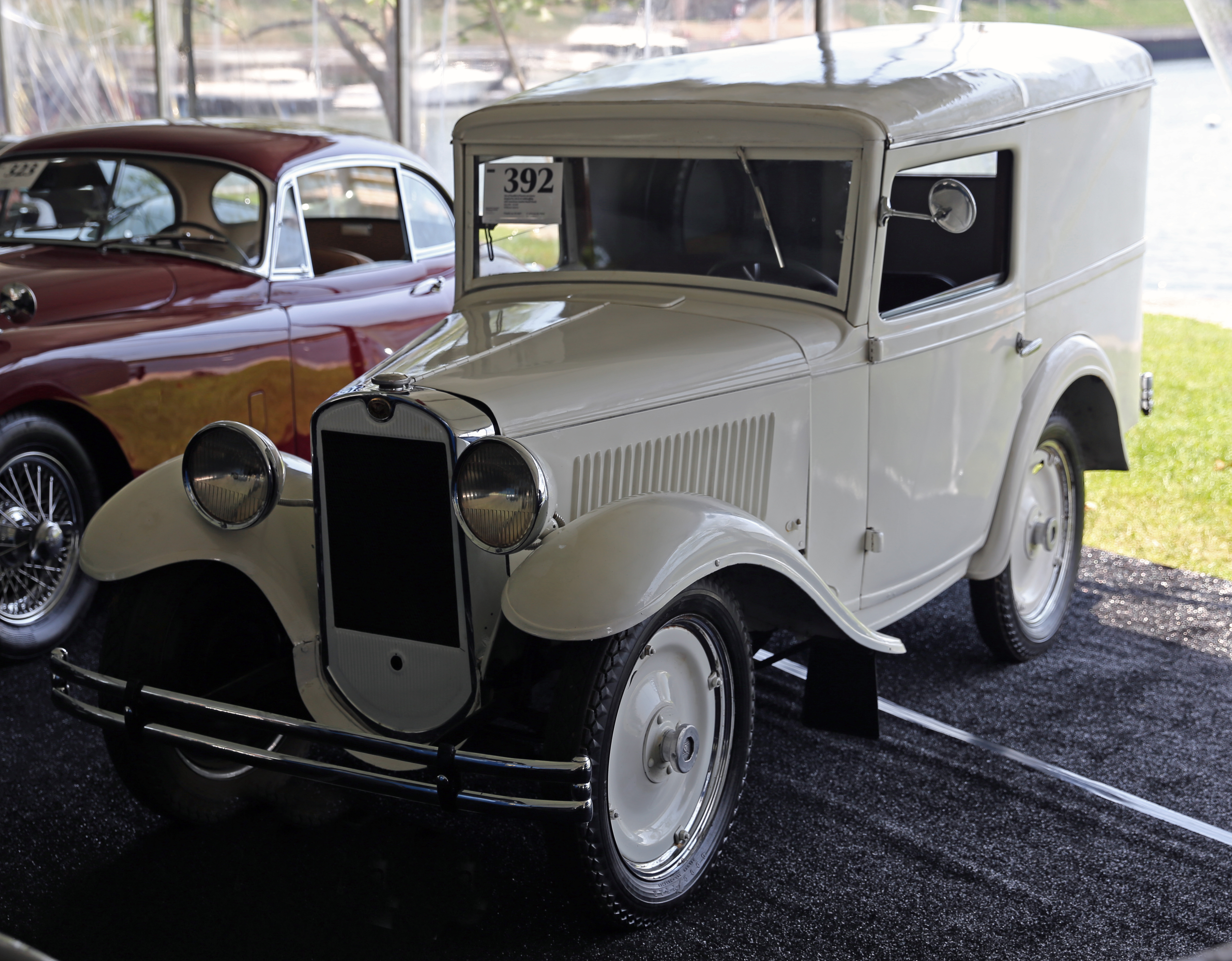 1935 American Austin Panel Van at the Bonhams auction attached to the 2013 Greenwich Concours d'Elegance. Chassis number 475-8827, engine number M-20038.